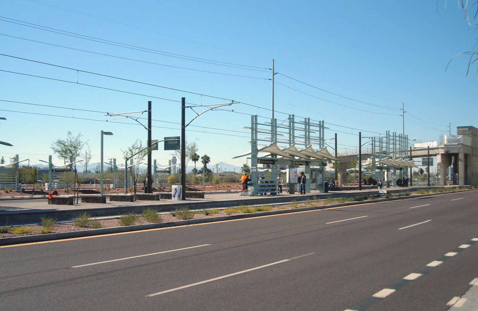 Photograph of the Sky Harbor Airport (or Washington at 44th Street) Station of METRO Light Rail that serves the Phoenix area, Arizona, USA. This photograph was taken during the light rail's grand opening celebration on December 28, 2008.